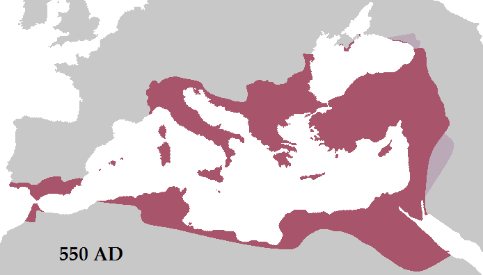 The Eastern Roman Empire (purple) and its vassals (pink) in 550 AD during the reign of Justinian I. The vassals are the Kingdom of Lazica and the Abasgians (top), and the Ghassanids (east).